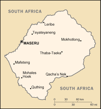 Map of Lesotho showing major cities.